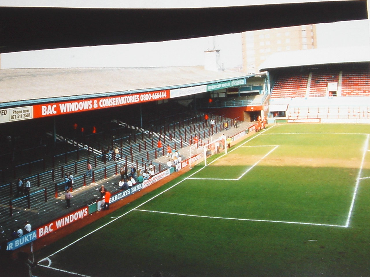 The North Bank at West Ham's Boleyn Ground circa 1991 (digital version of old 35mm shot)